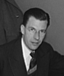 John Kenneth Galbraith, Canadian-American economist